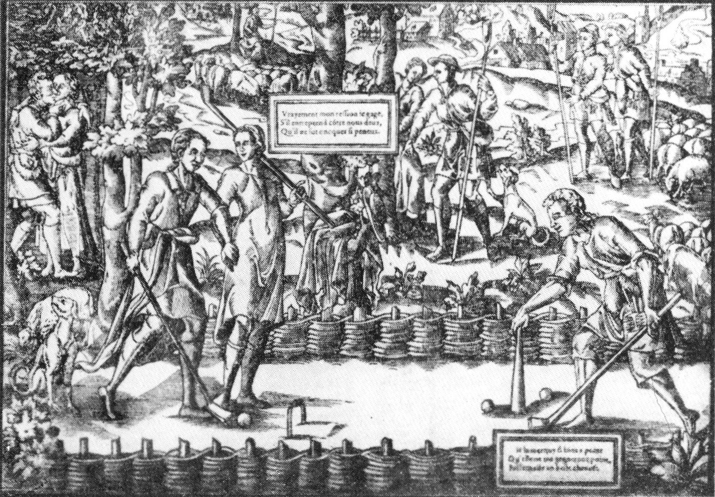 A game of French ground billiards, 1480 woodcut.